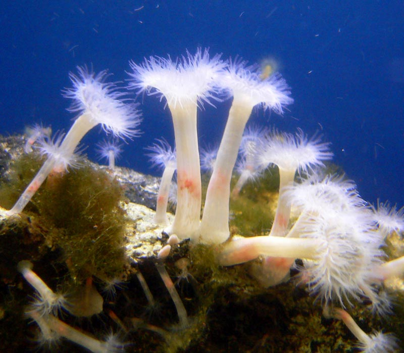 Photo of very small Metridium senile at the Steinhart Aquarium in San Francisco